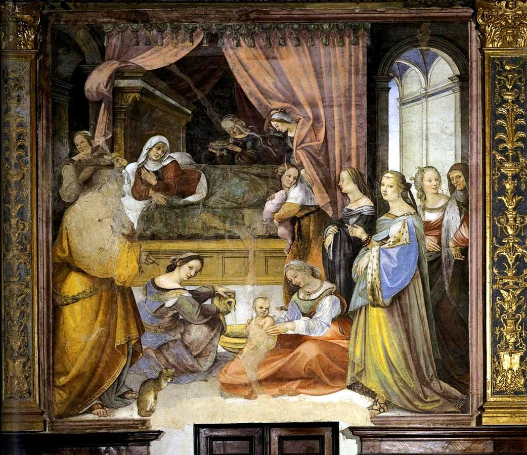 Birth of the Virgin